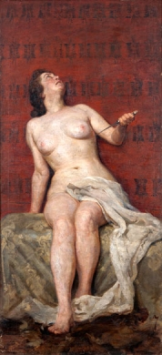 Георги Митов, Лукреция Романа, 90-те г. на ХIХ век